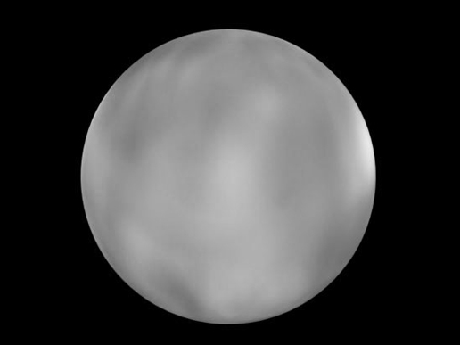 Model of 1 Ceres based on Hubble Space Telescope images taken in 2003 and 2004.